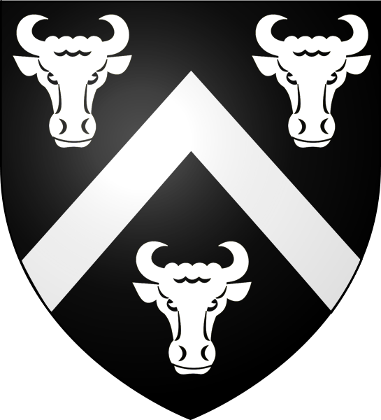 The coat of arms of Buckley of Buckley. Sable a cheveron between three bulls' heads cabossed Argent. Buckley was a former estate in Wardleworth, Lancashire (now Rochdale, Greater Manchester), England.